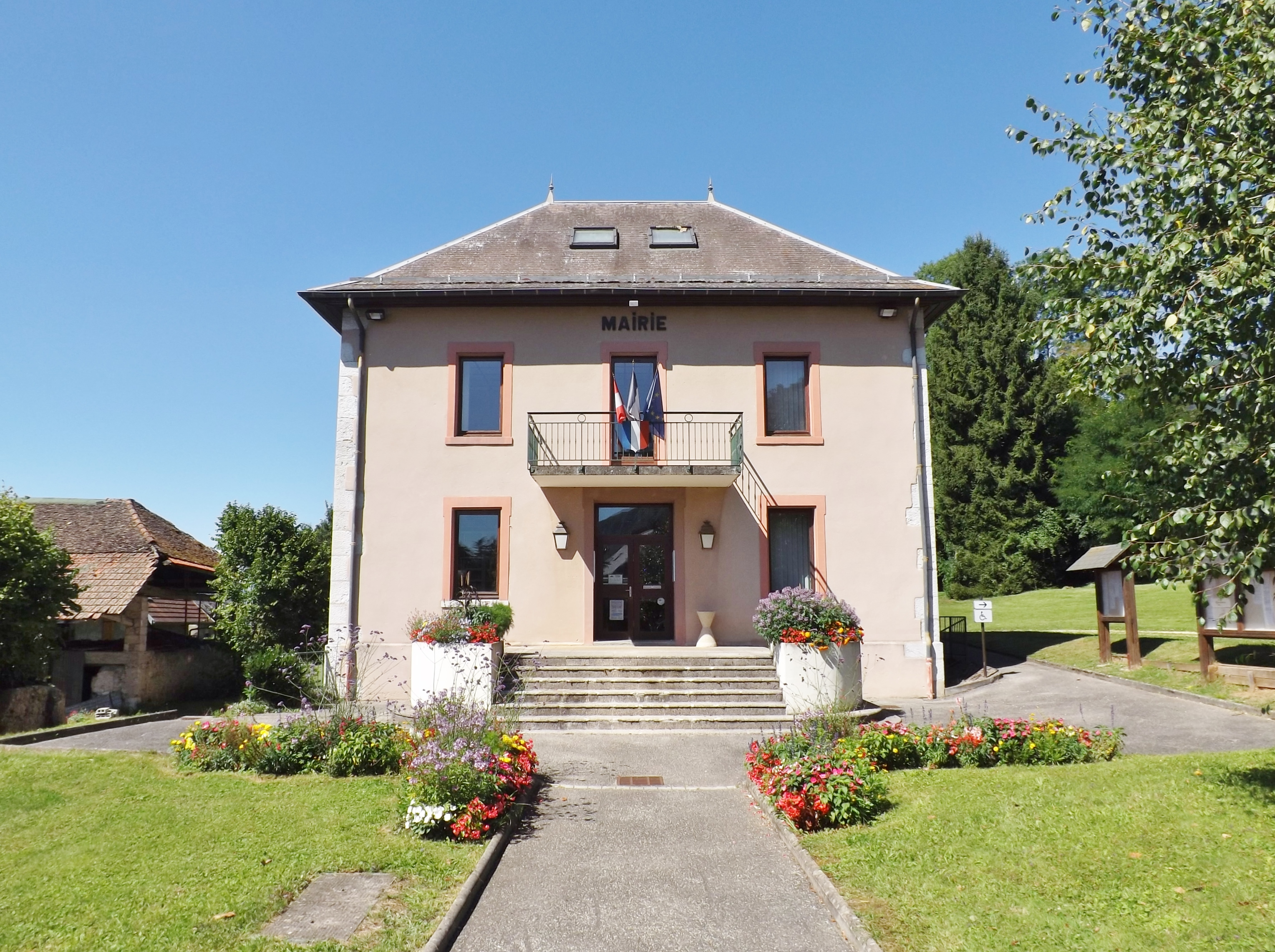 Sight of the commune of Méry town hall, in Savoie, France.